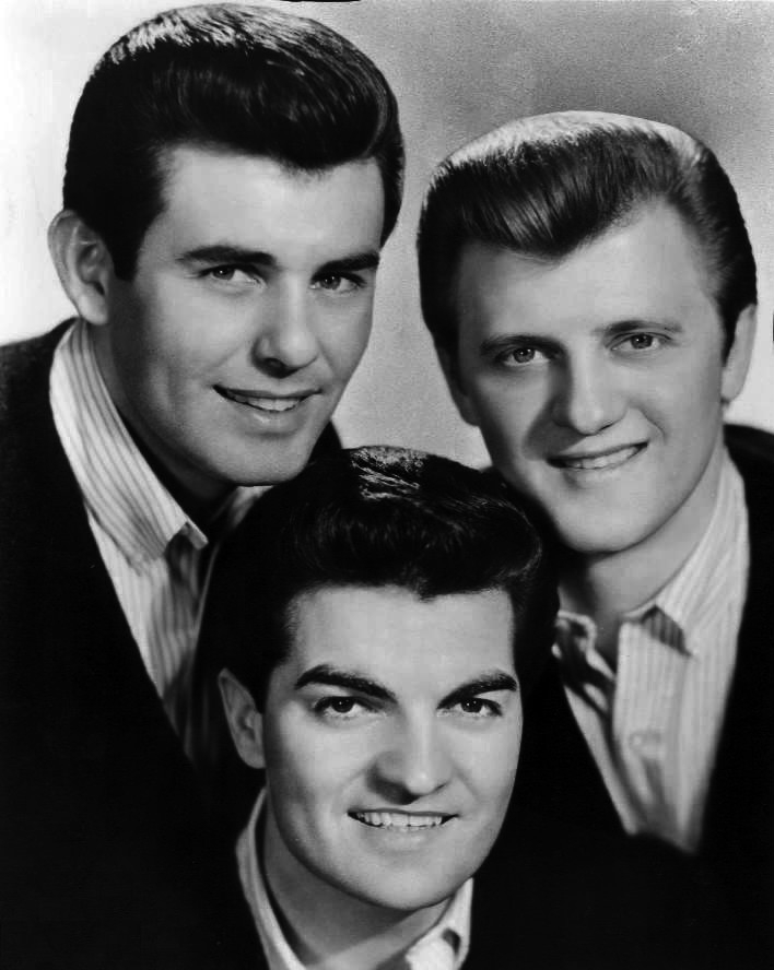 Promotional photo of the singing group The Lettermen.